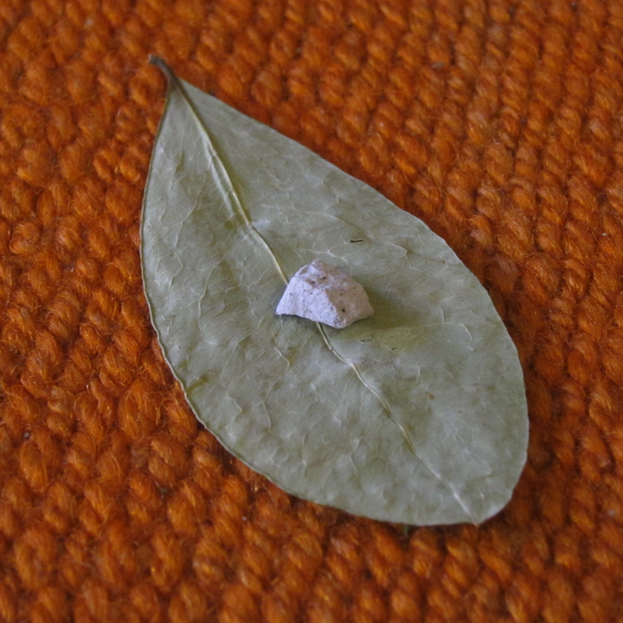 Rock of llipta on a coca leaf (underside up), on red textile, at Museo de coca in Cusco, Peru.